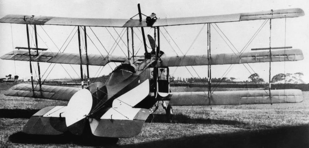 Tri-wing Avro 547 aeroplene, owned by Qantas, ca. 1921